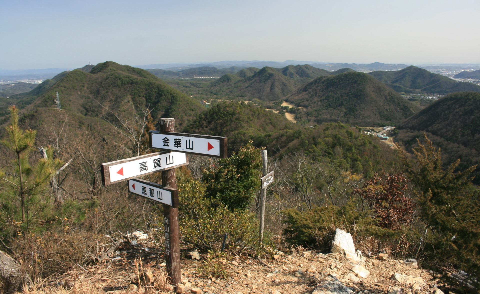 Observation_deck_in_Kakamigahara_alps